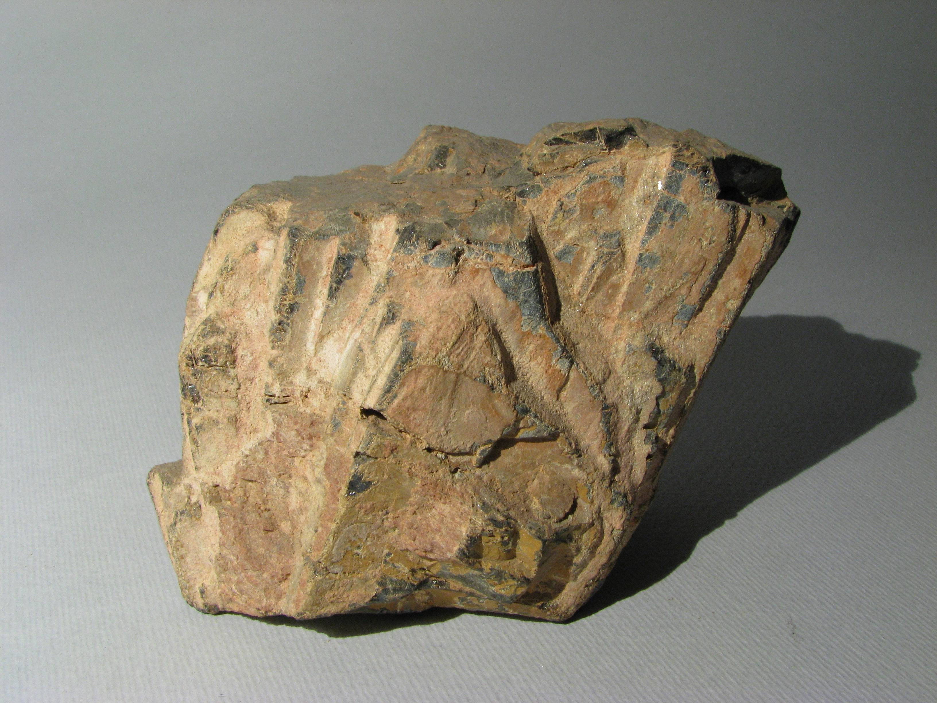 Euxenite, crystals aggregation (11 cm) - Vegusdal, Norway